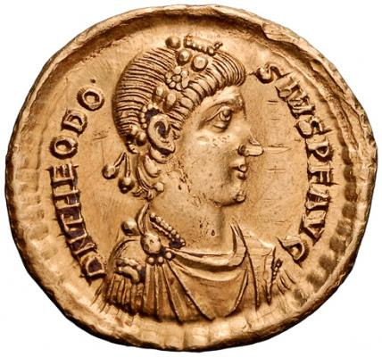 Theodosius I